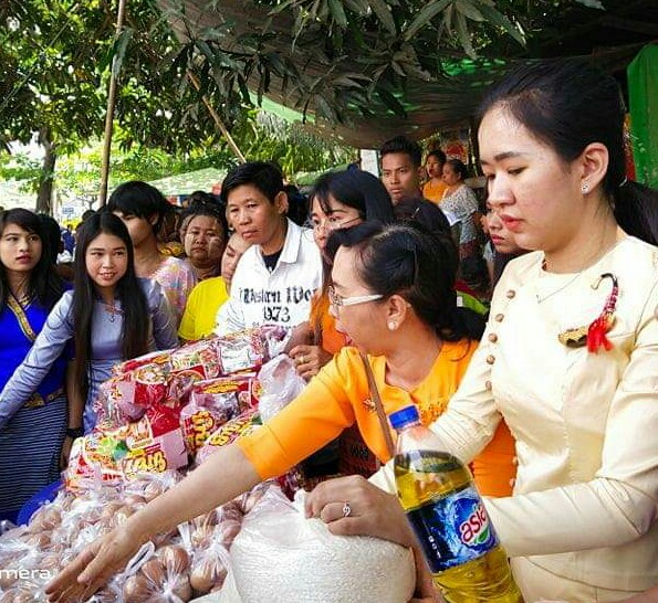 Aye Mya Phyu (Burmese: အေးမြဖြူ; also known as Moe Tho (မိုးသို), born 9 March 2003) is a Burmese singer and actress. She famous from competing in the fourth season of Myanmar Idol and finishing as the runner-up.